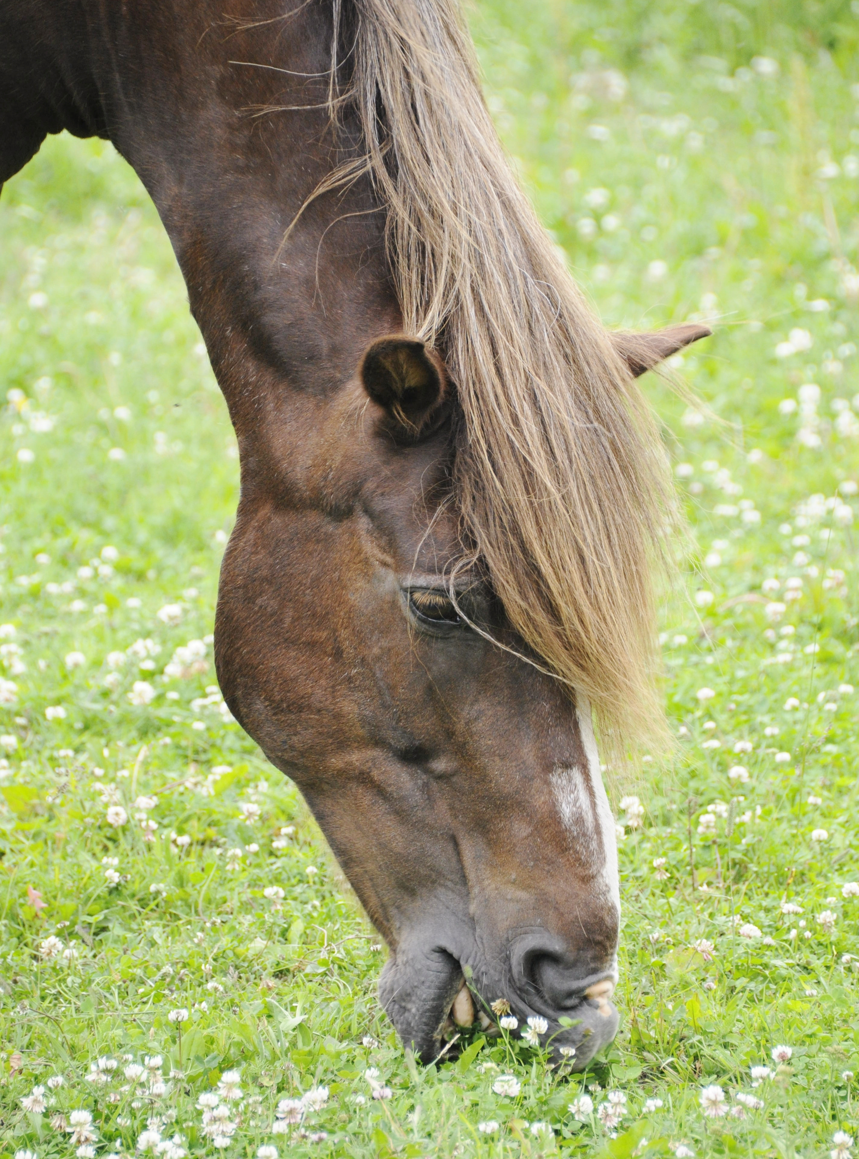 Elderly Finnhorse mare (20 y.o.), studbook section R, grazing.